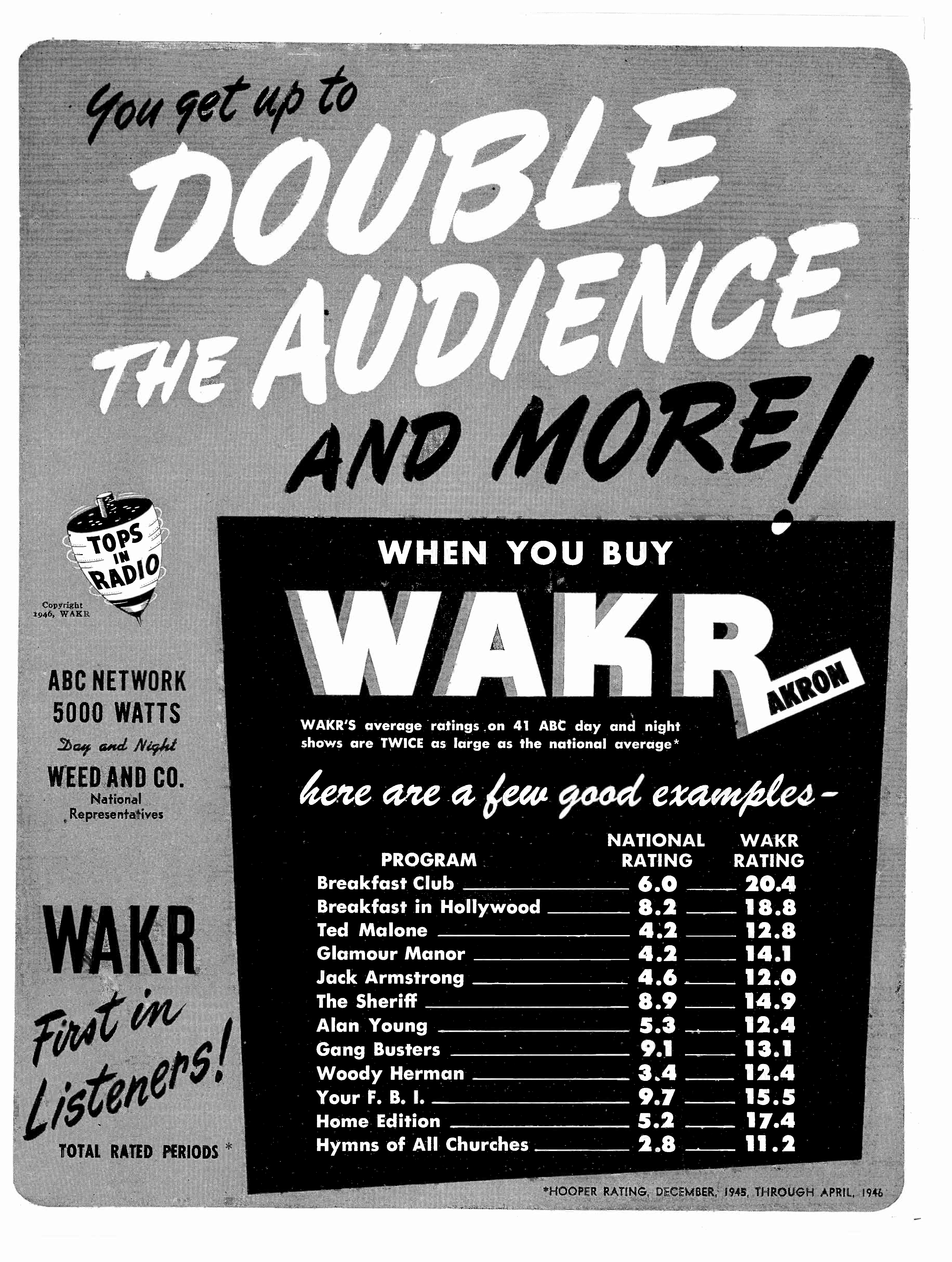 The ad appeared in the October 21, 1946 issue of Broadcasting and can be dated from that publication; it is pre-1978. There are no copyright markings as can be seen at the full view link. The ad is not covered by any copyrights for the Broadcasting & Cable. US Copyright Office page 3-periodicals are collective works (PDF) "A notice for the collective work will not serve as the notice for advertisements inserted on behalf of persons other than the copyright owner of the collective work. These advertisements should each bear a separate notice in the name of the copyright owner of the advertisement." The WAKR call letters have been previously trademarked, but the filing occurred after the ad was printed (1985) and has since been cancelled (1992).